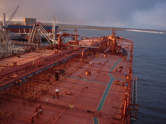 SONANGOL KIZUMBA at Teesport SONANGOL KIZUMBA was loading Ekofisk crude oil.